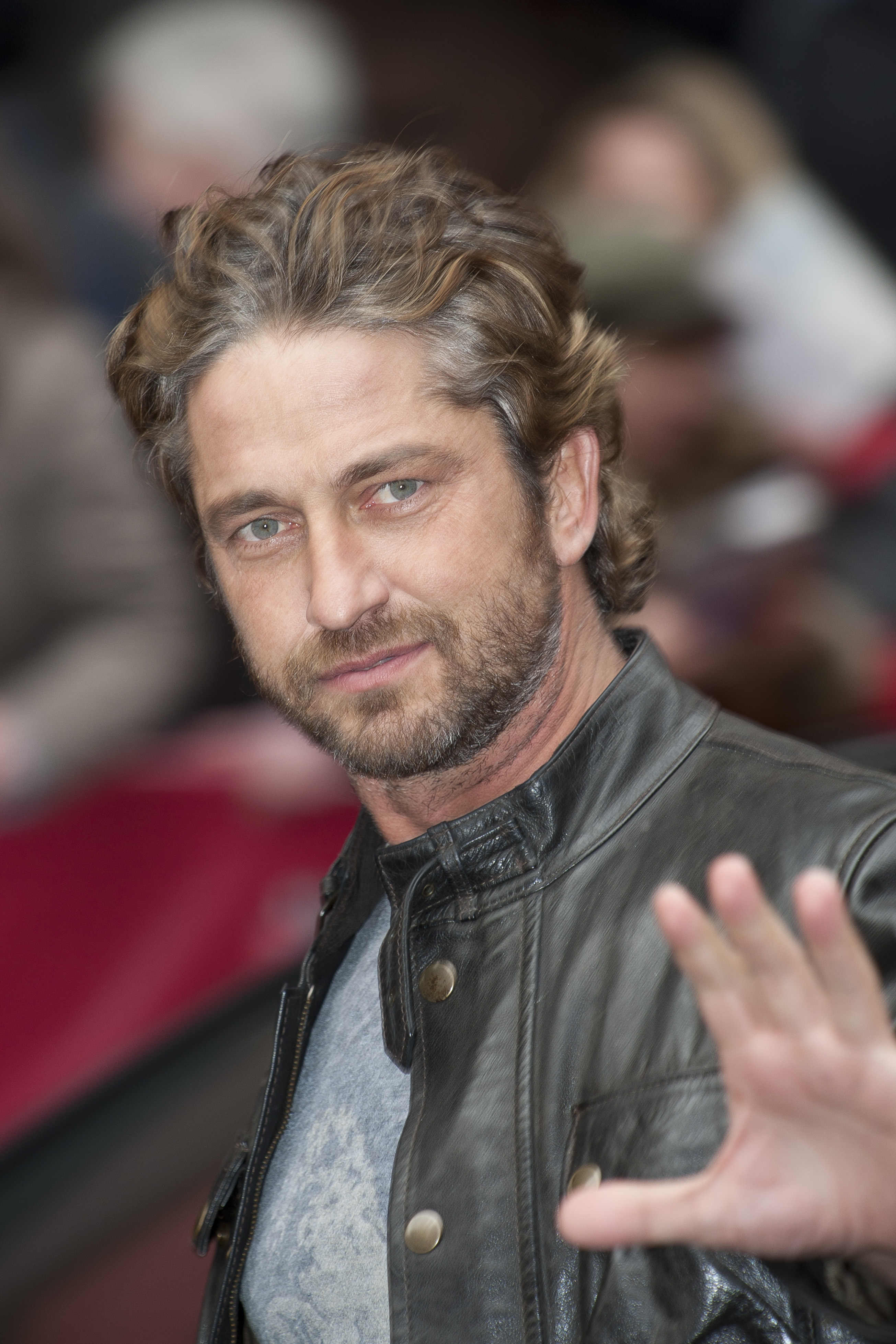 Scottish actor Gerard Butler at the press conference for the film Crayolanus